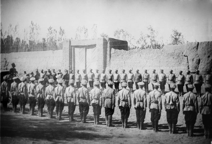 Russian Imperial Troops in Iran. 1911.